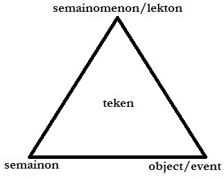 Semiotische driehoek stoïcijnen.